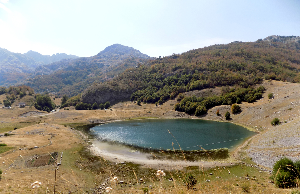 Bukumirsko lake, Montenegro